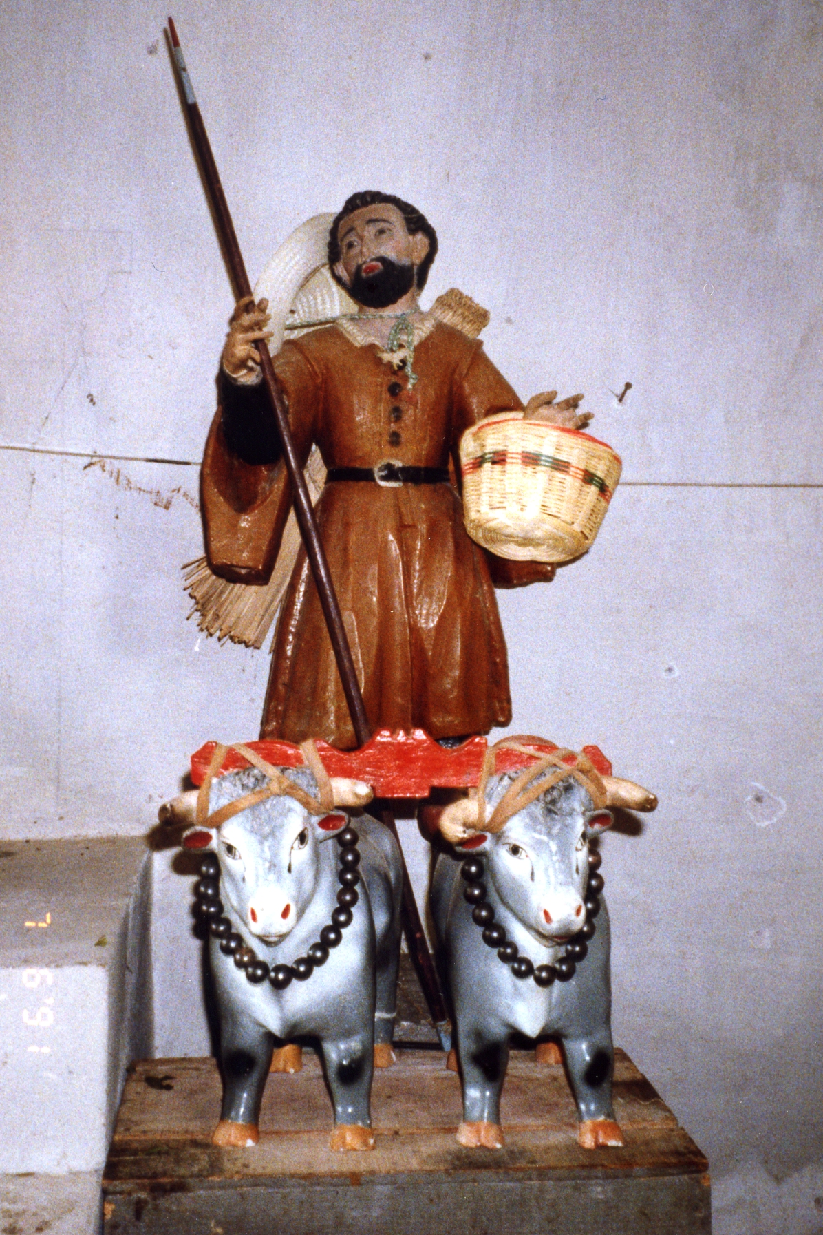 San Isidro Labrador, in the church of San Pablo Huitzo, Oaxaca, Mexico, on an andas on the extreme right of the altar in the first bay in the left wall of the nave